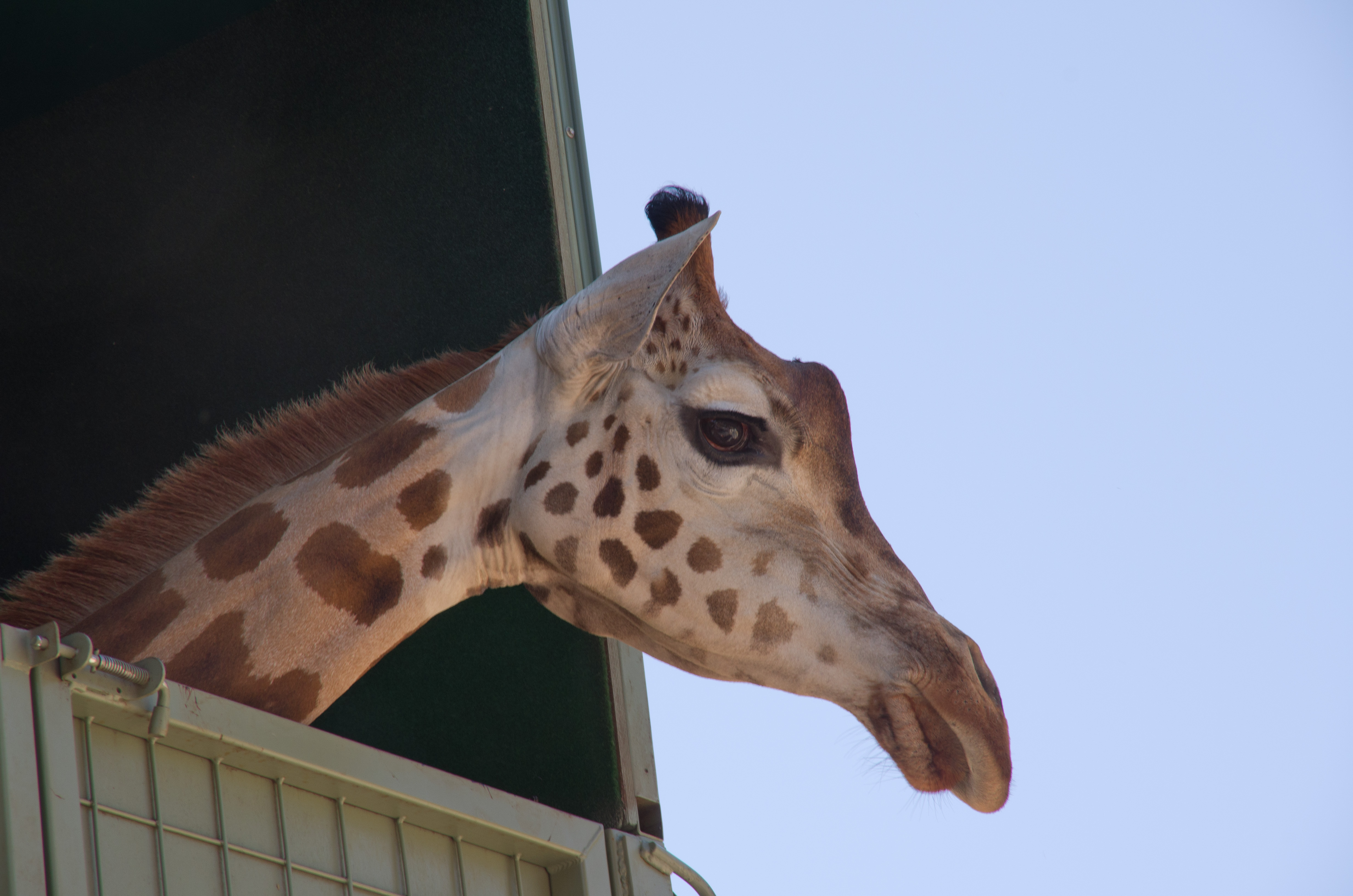 Asali commences her return from Perth Zoo breading program back to Monarto Zoo in South Australia a journey of some 2200km